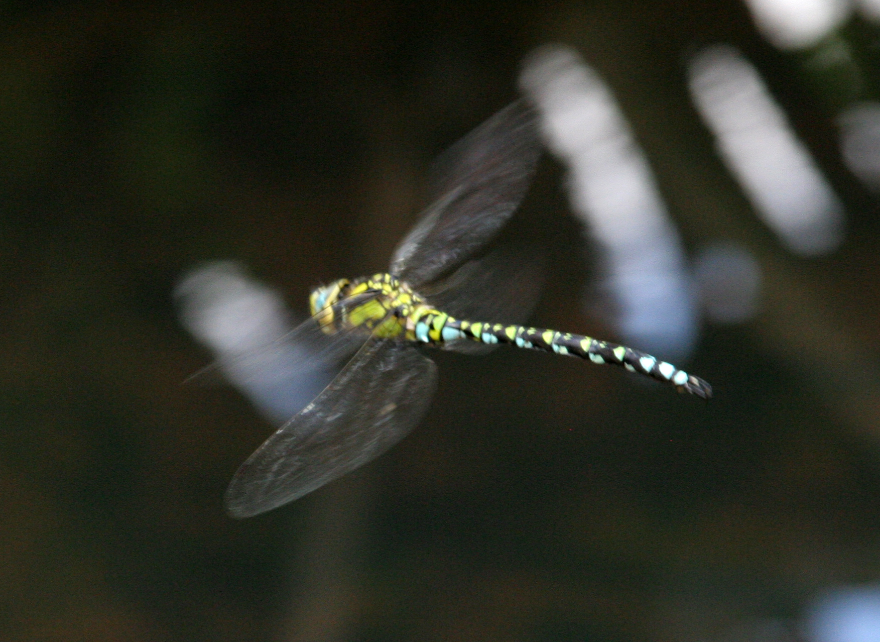 I managed to get a few shots of this dragonfly in flight, but it moved very quickly and the light under the shade of the trees around the pool was not good. I don't know what species it is but the yellow and blue markings are quite striking